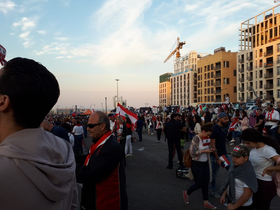 File:Lebanese protests Beirut 22 November 2019